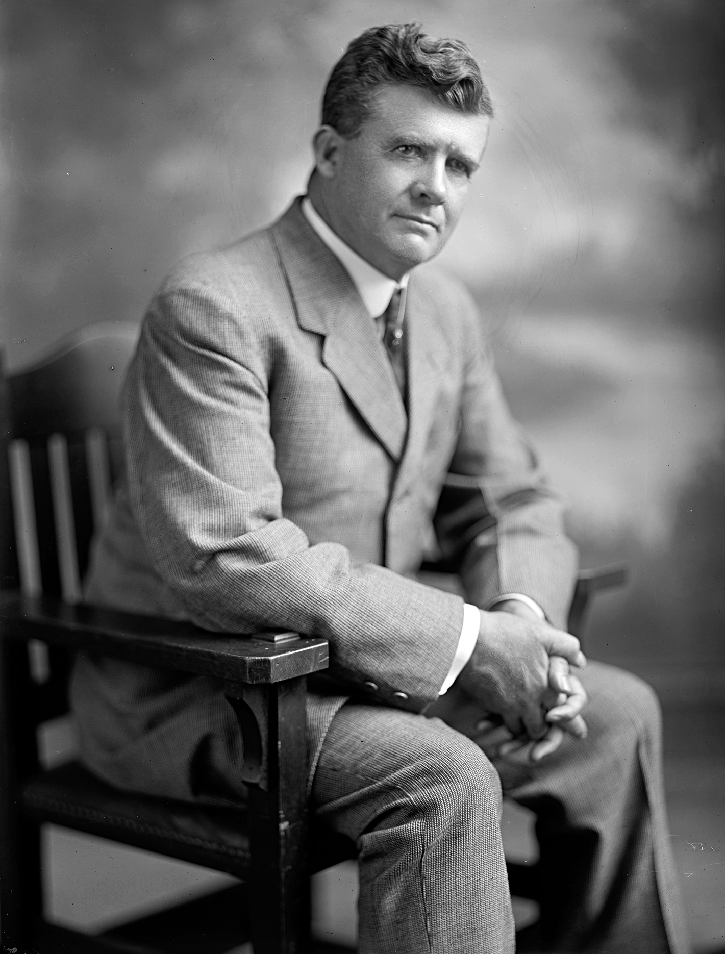 Denver S. Church, US Representative from California